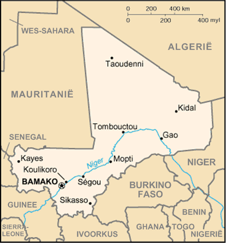 An Afrikaans map of Mali.